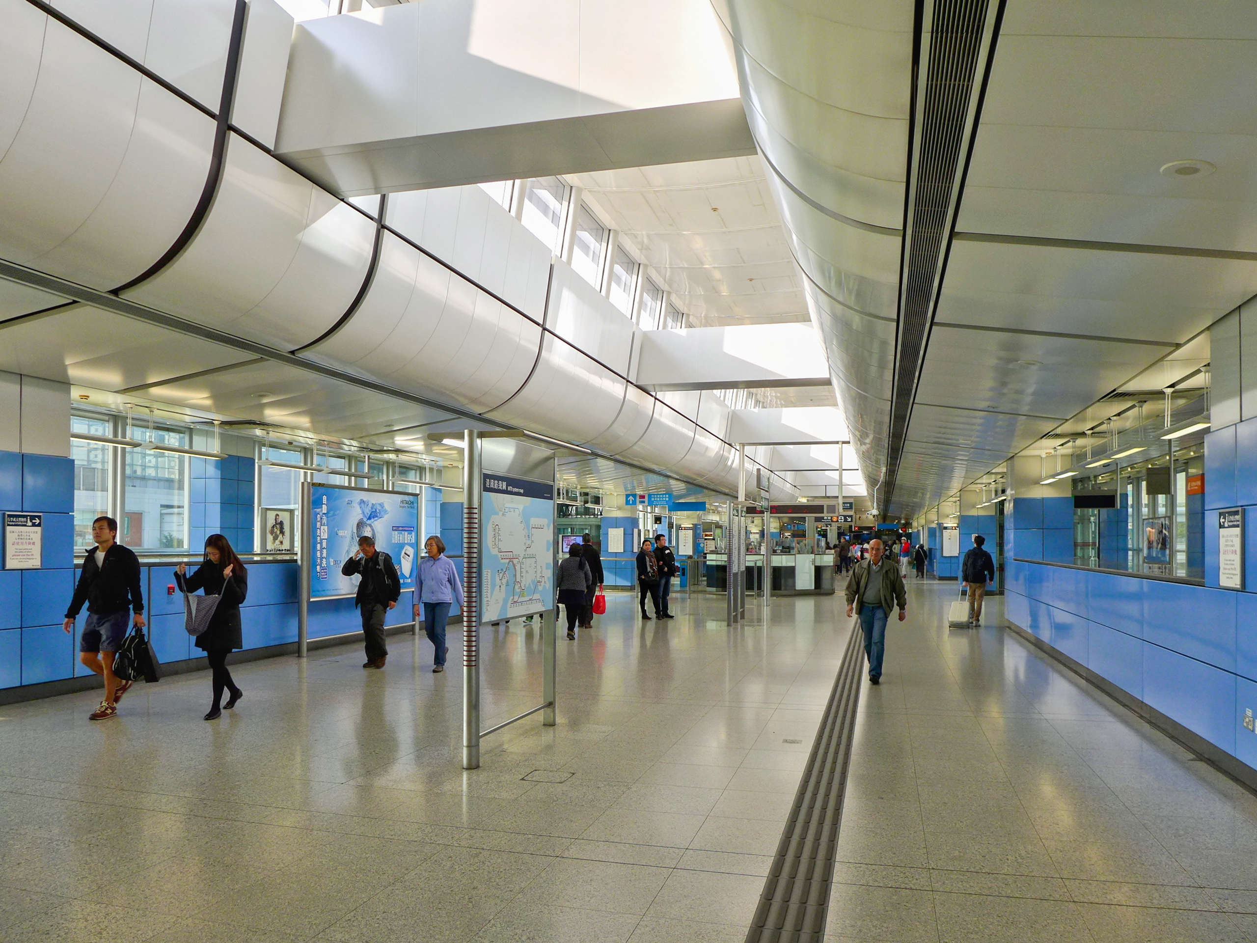 Olympic Station 奧運站